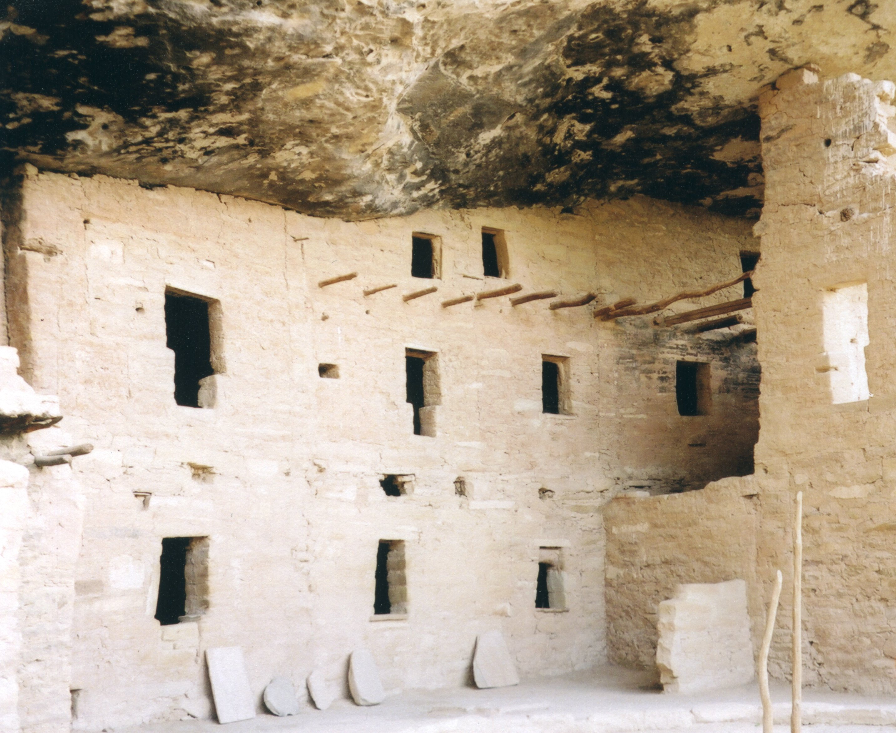 Spruce Tree House cliff dwellings. Mesa Verde National Park, photo taken by me May 2004.